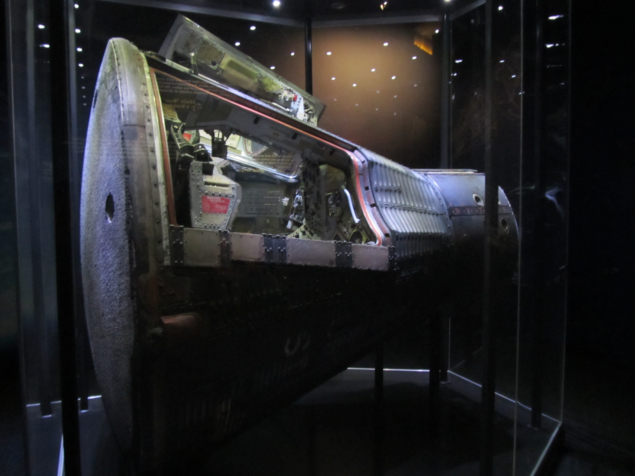 Gemini XII the Adler Planetarium, Chicago, Illinois